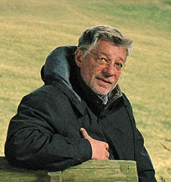 Botho Strauß portrayed by Oliver Mark, Uckermark 2007